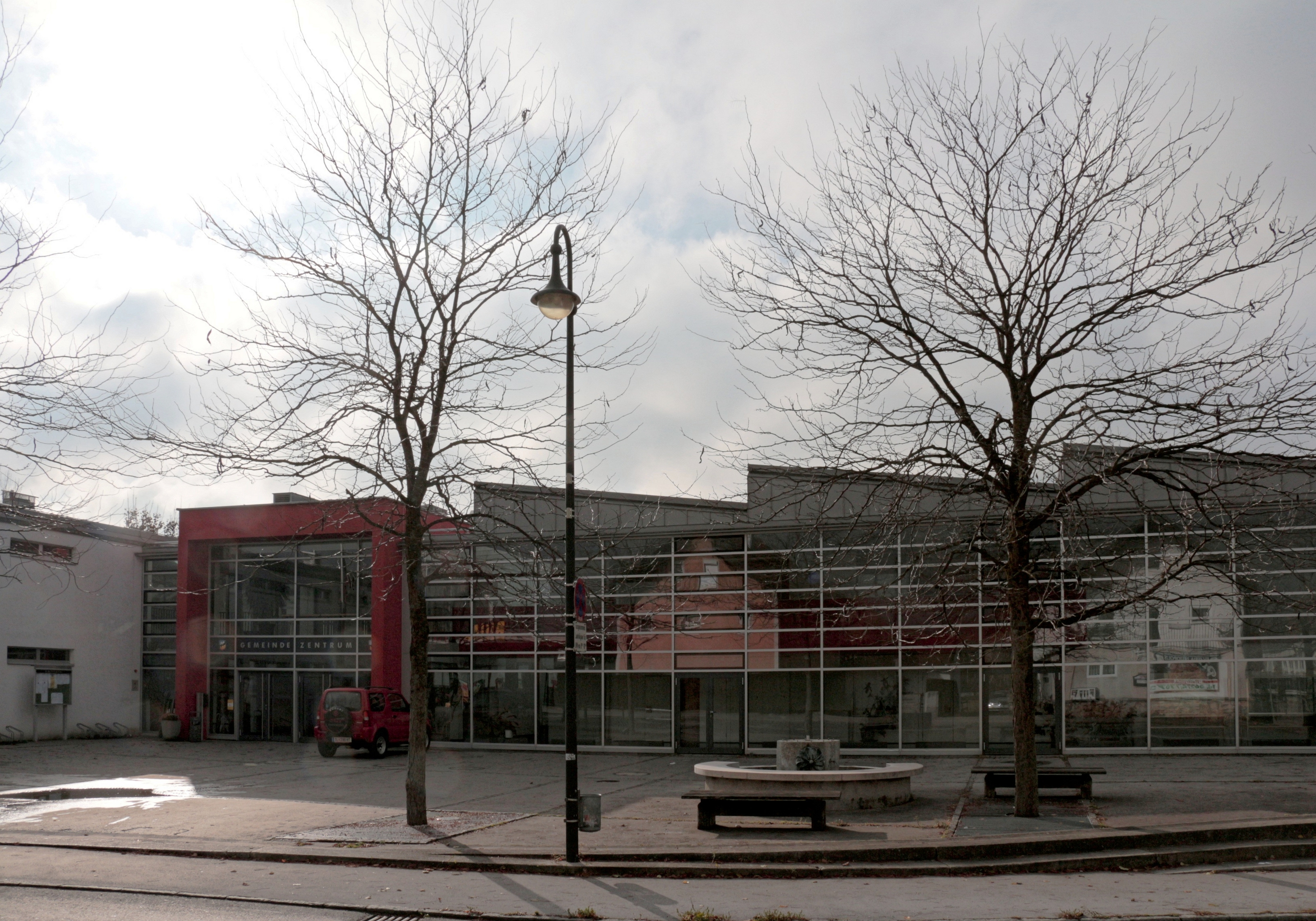 Municipality building of Bürmoos, a village in the north of the Austrian federal state of Salzburg (Salzburg-Umgebung District)